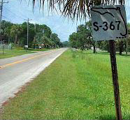 Old Florida Secondary State Route sign for S-367, now County Road 367, at the south end of the road facing north in Shell Point, Florida; taken 21 July 2003. Note that this sign was later moved to the opposite direction of the road.